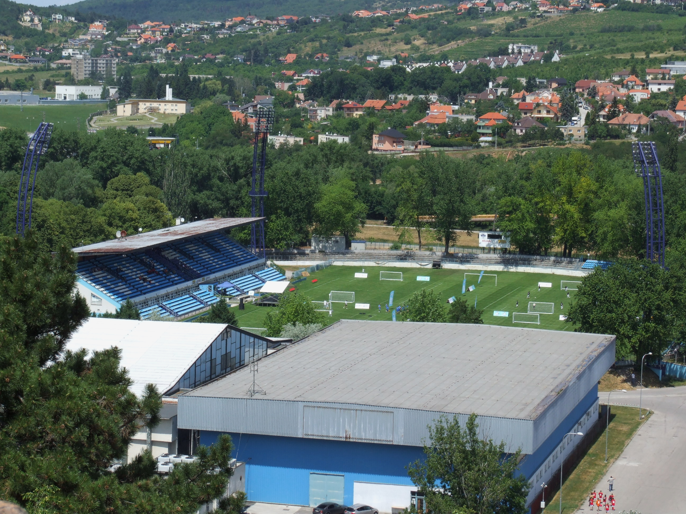 Štadión pod Zoborom - stadium in Nitra (Nyitra)